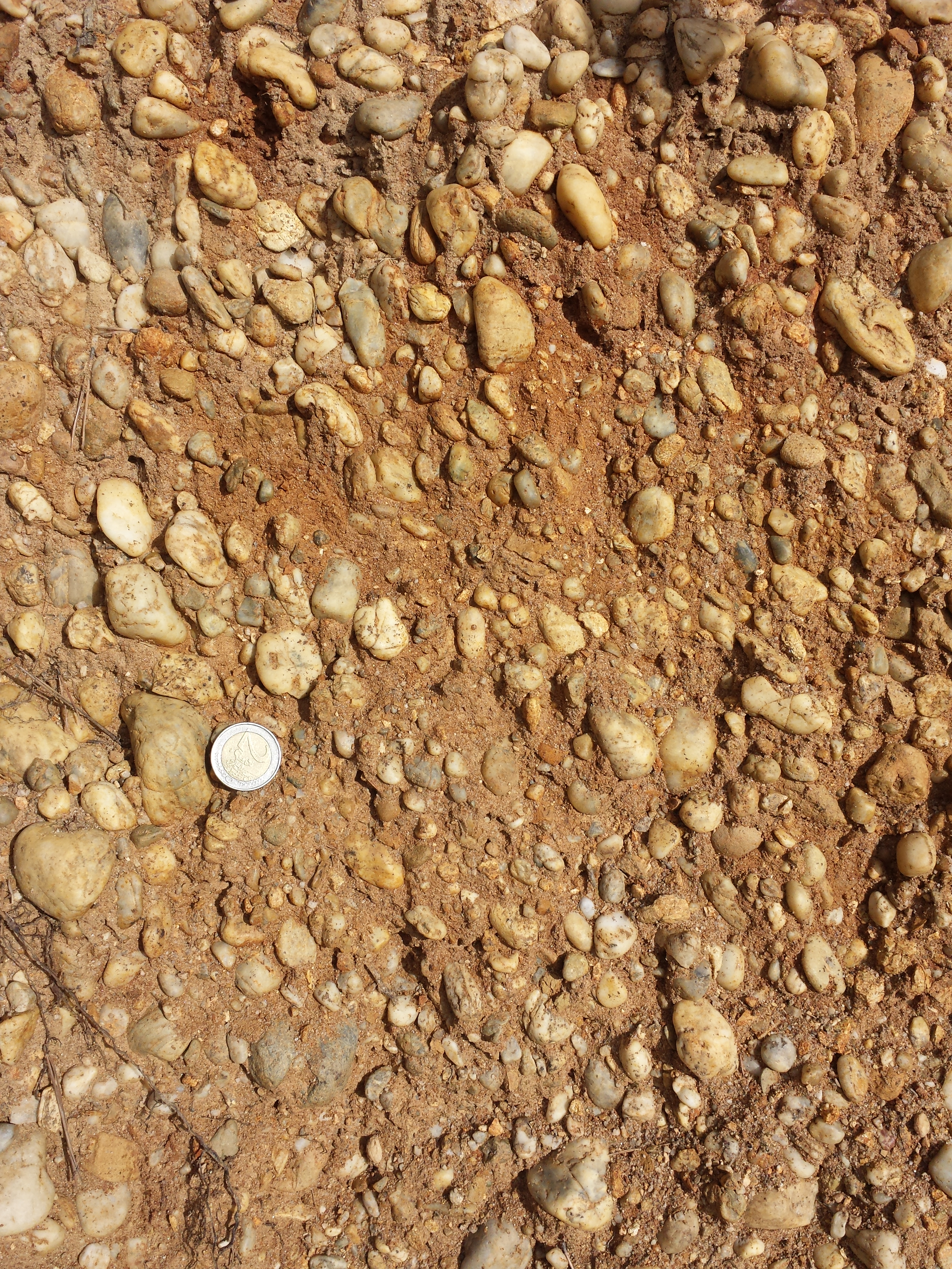 Abandoned quarry in Glasweiner Wald between Porrau and Hollabrunn, district Hollabrunn, Lower Austria - ca. 340 m a.s.l. Quarry face from gravels and sands of Hollabrunn Mistelbach Formation